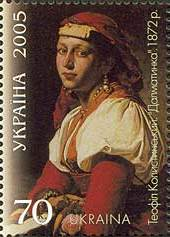 Stamps of Ukraine